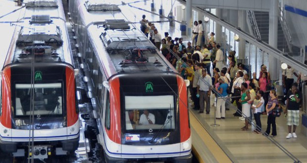 El Metro de Santo Domingo